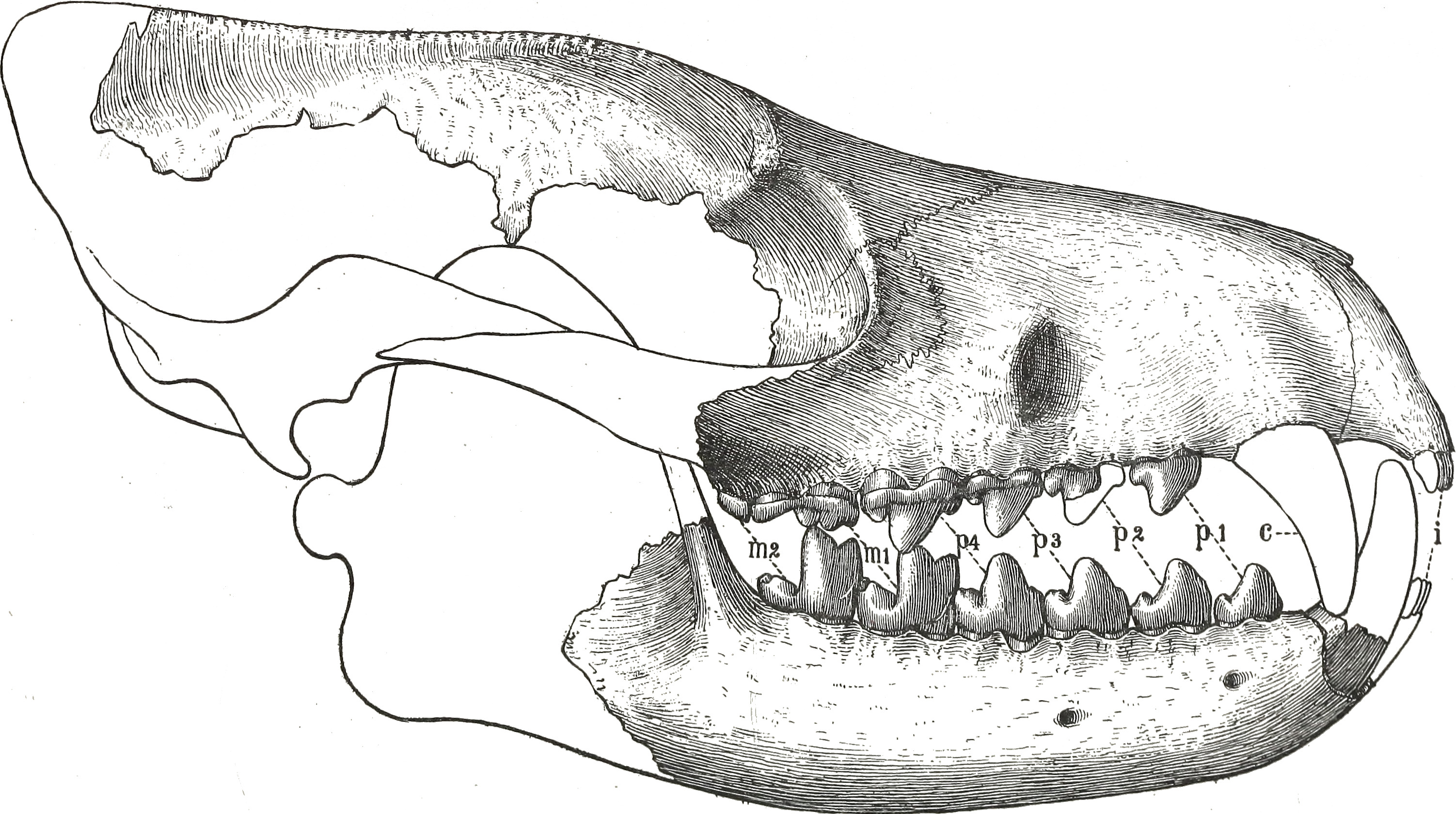 Title: The American journal of science Year: 1880 (1880s) Authors: Subjects: Science Publisher: New Haven : J. D. & E. S. Dana Text Appearing Before Image: Am. Jour. Sci., Vol. XIII, 1902. Plate VI. 5 % CD H &y Text Appearing After Image: '